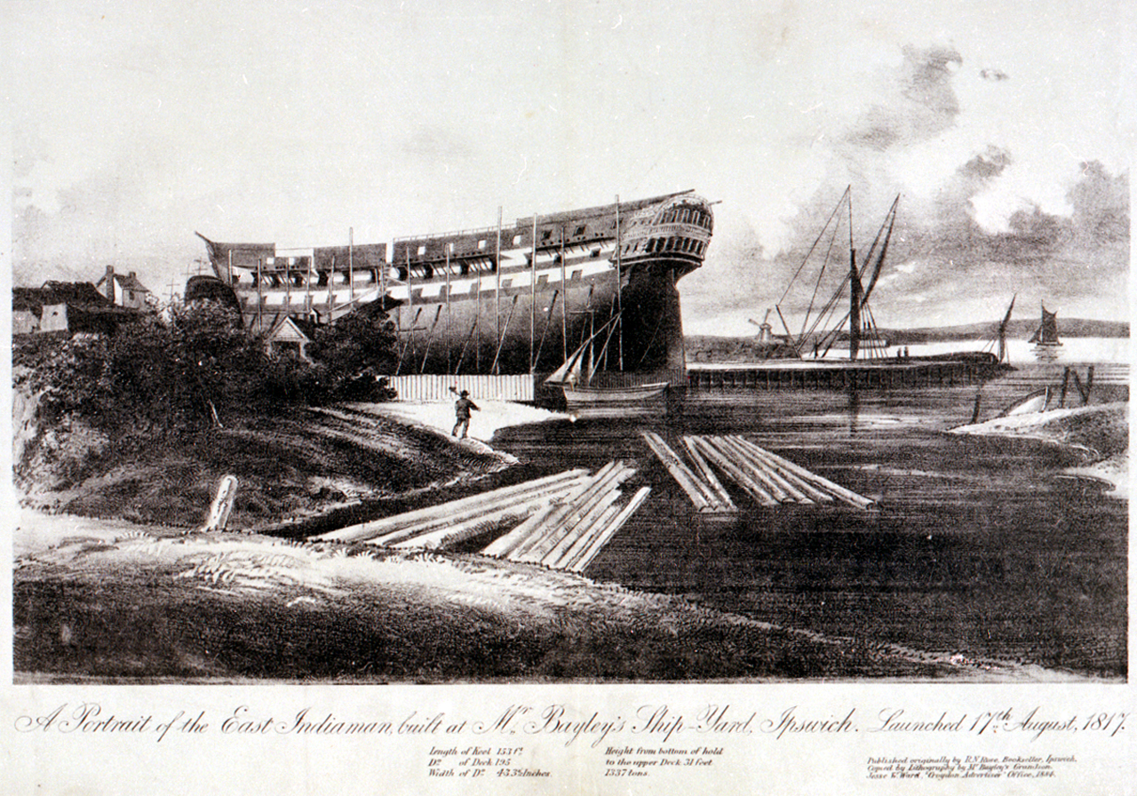 'A Portrait of the East Indiaman ['Orwell'], built at Mr Bayley's Ship-Yard, Ipswich. Launched 17th August, 1817' Print showing the Indiaman 'Orwell' on the stocks at Ipswich, inscribed lower right: 'Published originally by R.N. Rose, Bookseller, Ipswich. / Copied by Lithography by Mr Bayley's Grandson / Jesse W. Ward "Croydon Advertiser" Office, 1884.' The ship's dimensions are also given in an inscription, lower center, as 153 feet (keel), 195 feet (deck), 43 ft 3 1/2 ins (width on deck), depth in hold to upper deck 31 feet, 1337 tons. The launch was in fact delayed and took place on 29 August, the ship being named 'Orwell' by Mrs Isaacs, wife of the principal owner, as recounted in a passage in 'Ship News' in the 'Morning Post' of 2 September 1817. 'The vessel went through the dock to the main channel, about 300 yards, without a check, but grounded at the edge for some minutes; still, as she was launched before high water, she wore round, and three small square sails being hoisted, she glided majestically down the river [Orwell] for about a mile and a half.' About 20,000 spectators, both ashore and afloat, were estimated to have come to witness the launch, which was celebrated with flags flying, the bells of churches along the river being rung and a ball at the Ipswich Assembly Rooms that evening, 'which was very genteelly attended.' [PvdM 4/15]